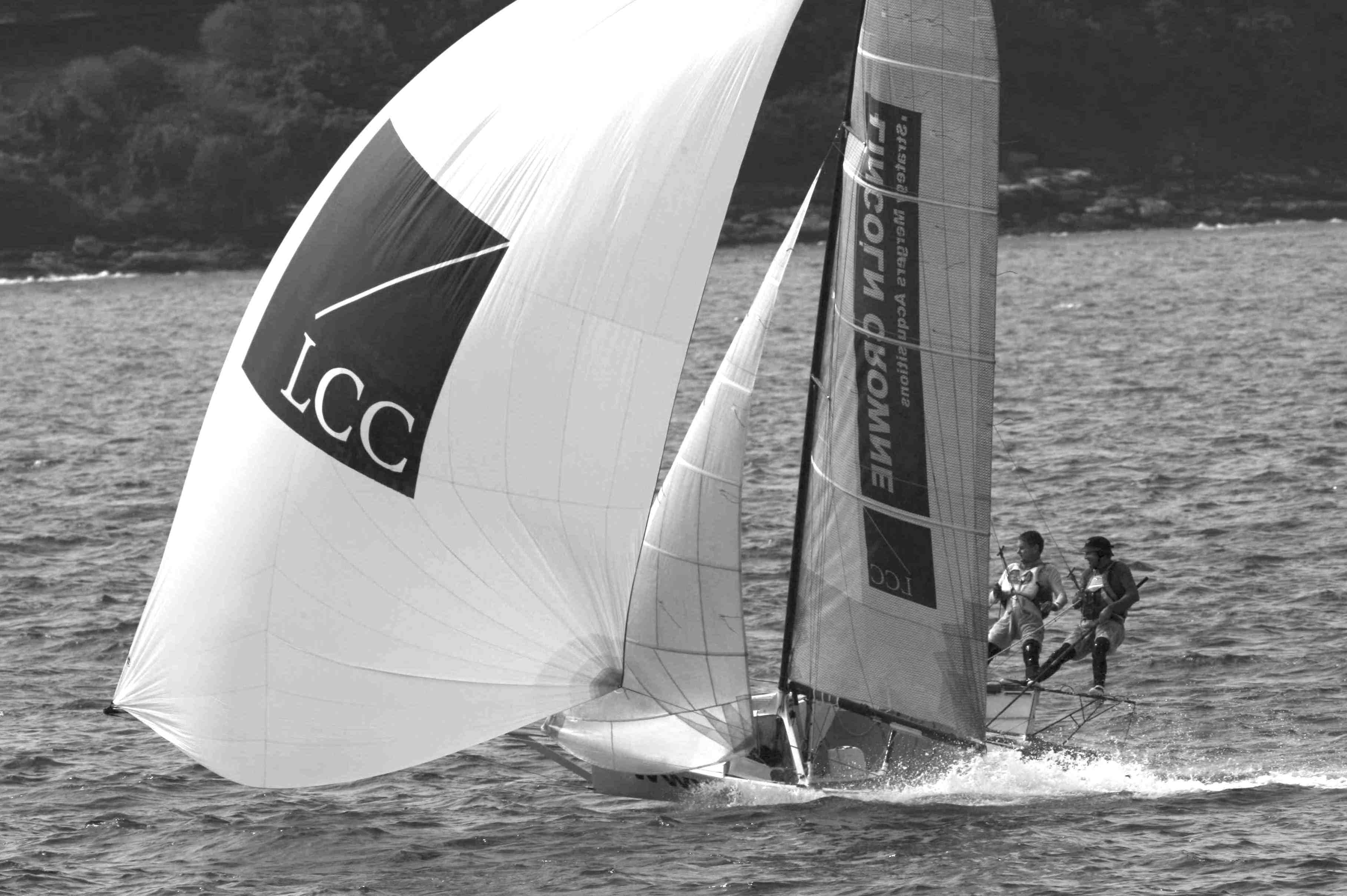 12 foot skiff Lincoln crowne competing on Sydney Harbour under full sail